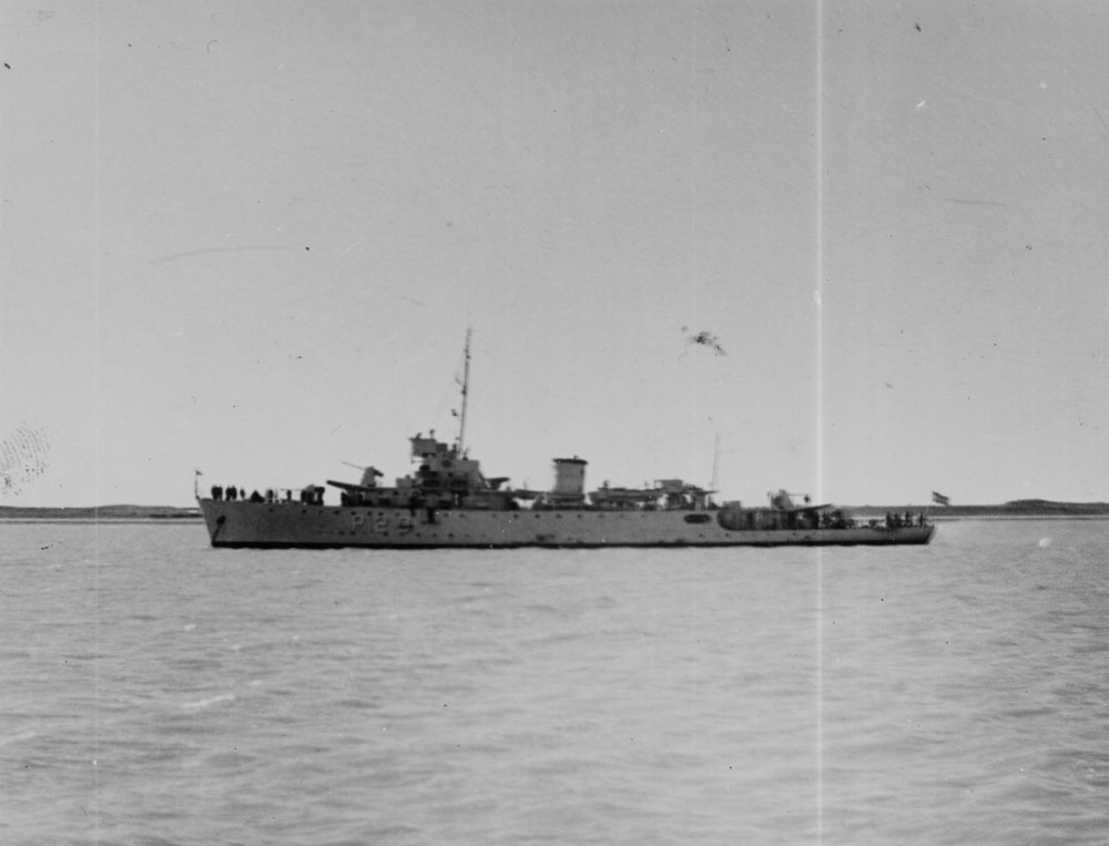 Argentine patrol vessels (corvette) ARA Murature (P-20) at sea